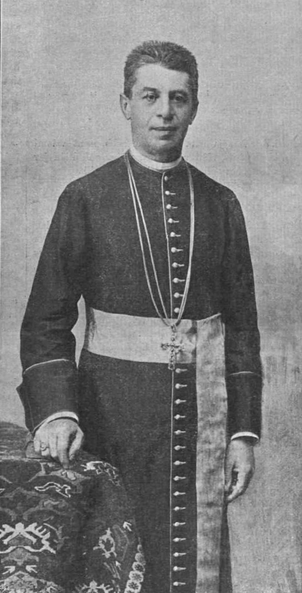 János Ivánkovits